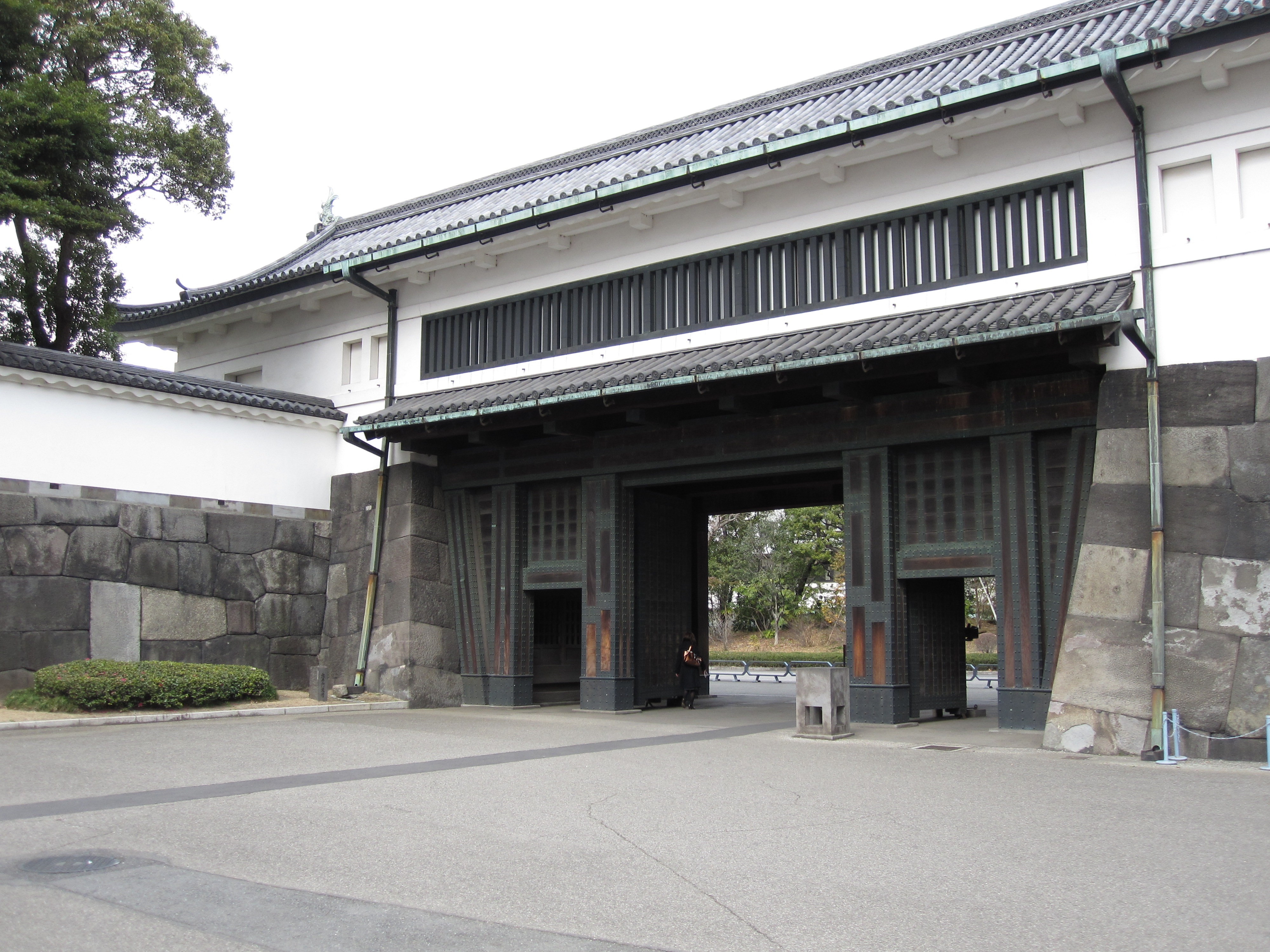 Ōte-mon gate, Edo castle